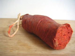 Cured saucise with paprika traditional of Balearic Islands.